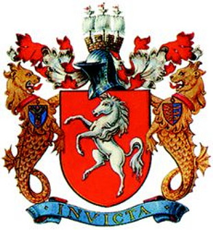 Coat of arms of Kent County Council, granted 17 october 1933. Text from[1]: "The arms were officially granted on 17 October 1933 and re-confirmed in 1975. The white horse of Kent is supposedly the old symbol for the Saxon kingdom of Kent, dating from the 6-8th century. The crest shows a mural crown, which symbolises the many castles in the county, as well as the independent Saxon kingdom of Kent. The sails are symbols for the strong ties of the county with the sea and stand for the navy, the mercantile marine and fisheries.The sea lions are also a symbol for the strong ties with the navy, the lion being the British lion. The sea lions also symbolise that Kent is the frontier of Britain with continental Europe. The left supporter wears the arms of the Cinque Ports, five harbour cities that had to provide support for the English navy until modern times. Four of these cities are in Kent. The arms are three lions with ship hulls as tails. The right supporter wears a shield with the arms of the Archbishopric of Canterbury, founded in 597 by St. Augustine. Canterbury is in Kent. The motto means 'unconquered'. In 1067, shortly after the Norman Conquest (1066, as every schoolboy knows), a detachment of Kentishmen ambushed the newly crowned King William and surrounded him. In return for his life, he promised that the county would be able to keep its ancient privileges - thus Kent was the only part of England unconquered by the Normans (that is, according to legend). "